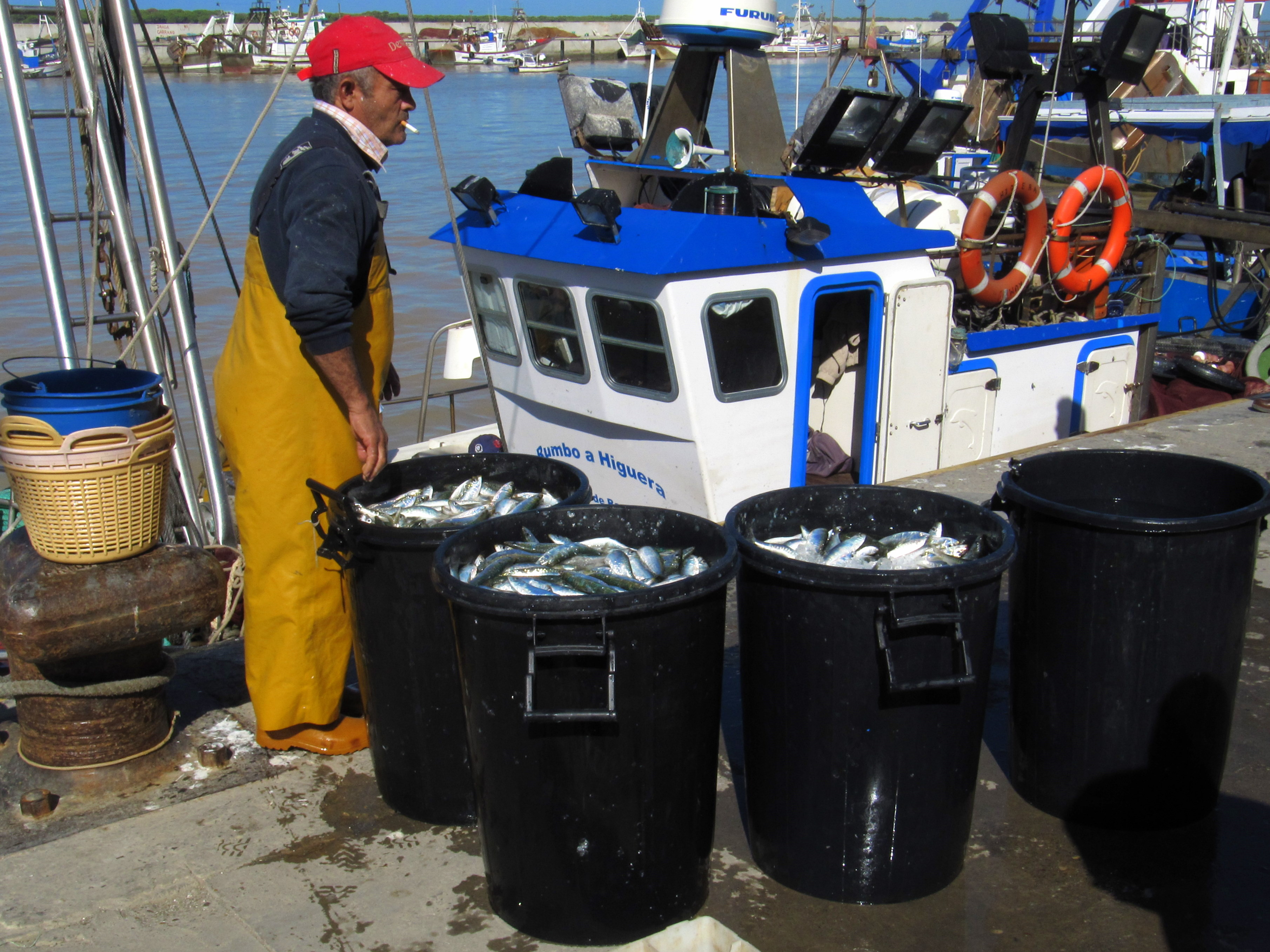 Puerto pesquero de Bonanza